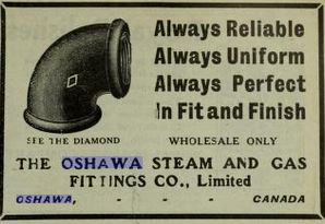 Advertisement in Hardware & Metal trade magazine published in 1909